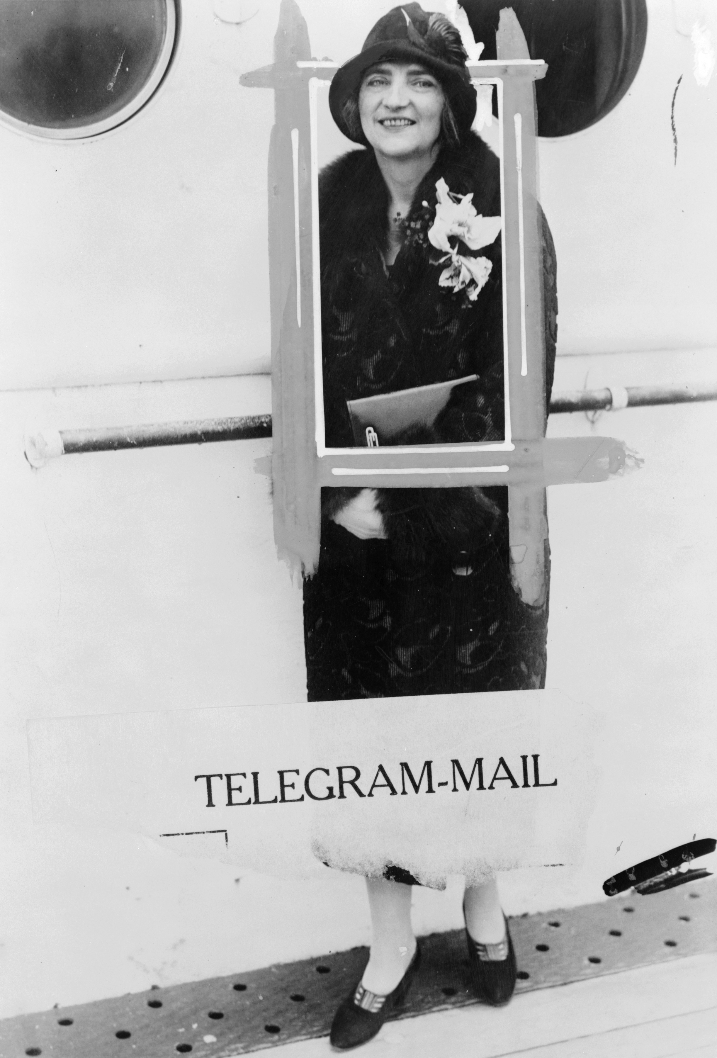 Constance Drexel, full-length portrait, facing front, standing on the deck of the ship Leviathan